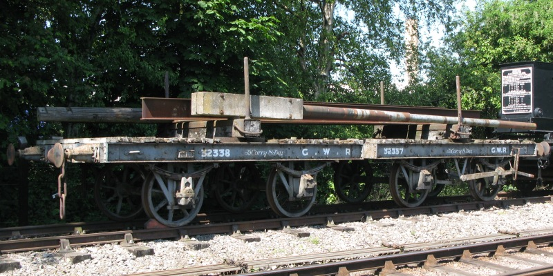 Great Western Railway diagram J9 'Mite' wagons at Didcot Railway Centre, England. This is a permenantly coupled twin bolster set for carrying long loads.